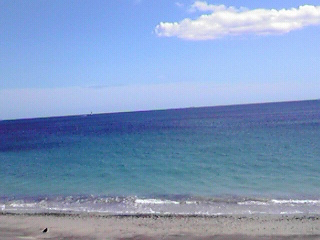 Here is Hiro-no-hama beach in Shimacho-Fuseda, Shima, Mie, Japan.